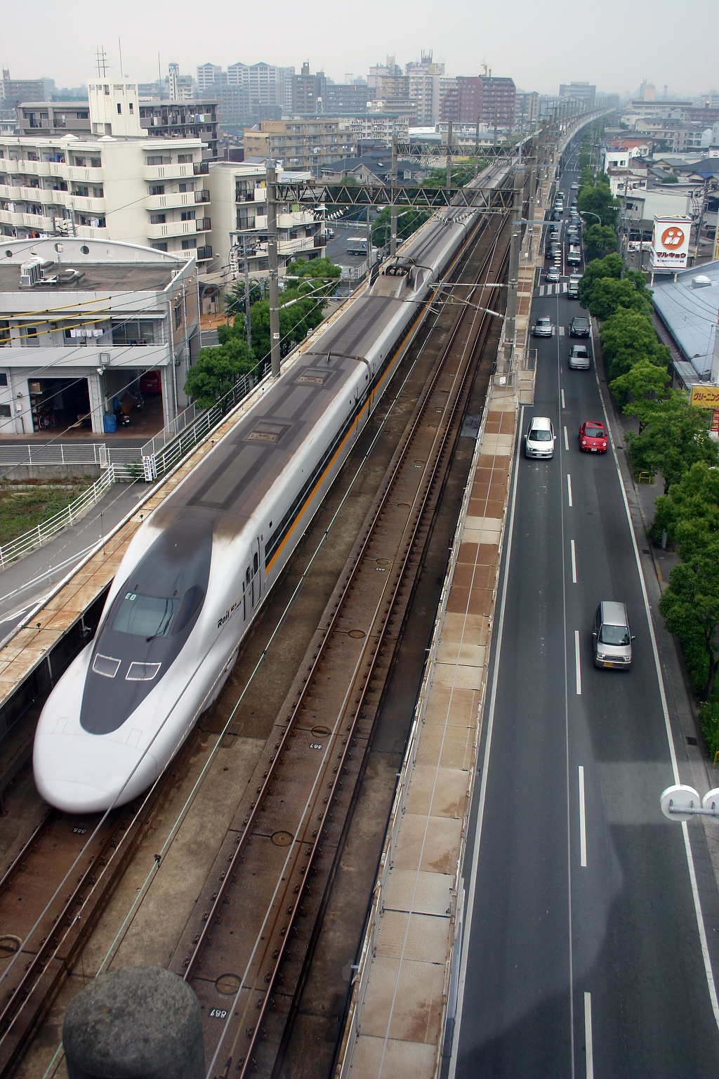 JR West 700-7000 series Shinkansen set E8 on the Hakata-Minami Line, near Matoba